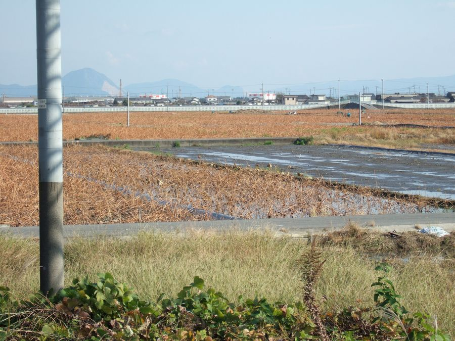 Lotus Fields of harvesttime at Iwakuni city, Japan(収穫期にある岩国市内のハス田)